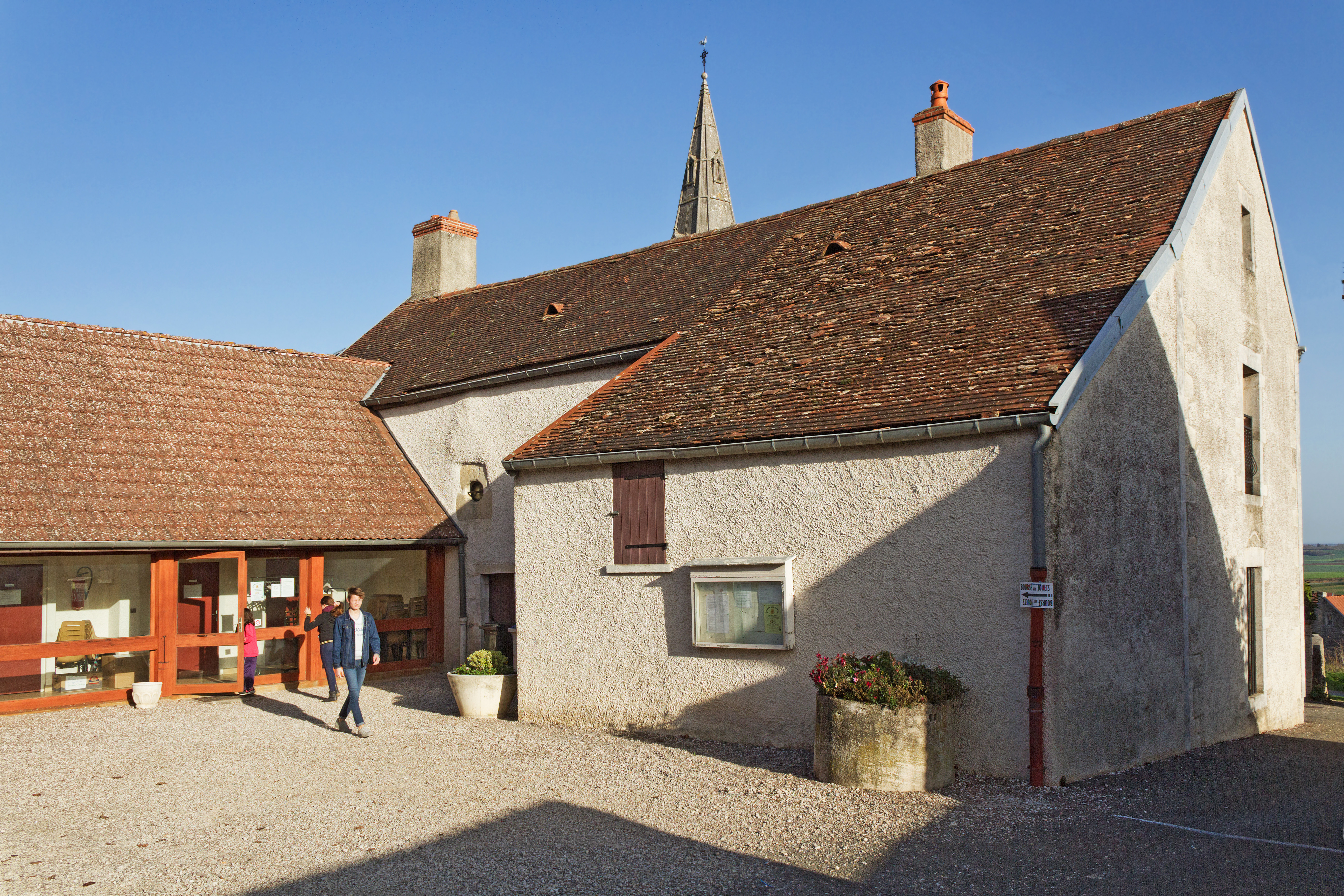 Community hall in Chaignay